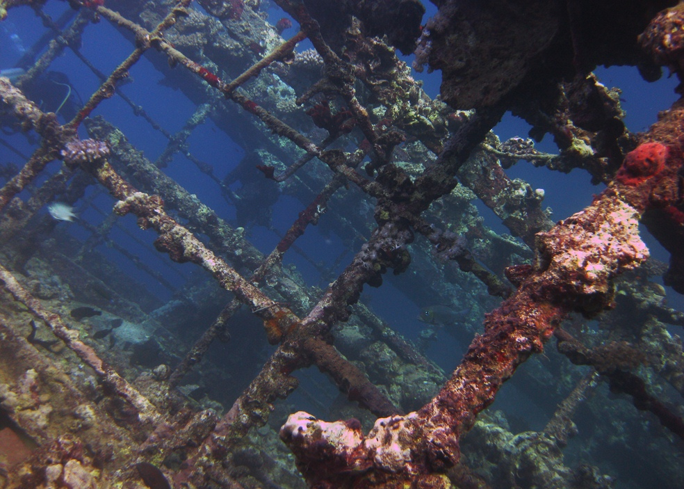 Wreck of the vessel Umbria in the Red Sea